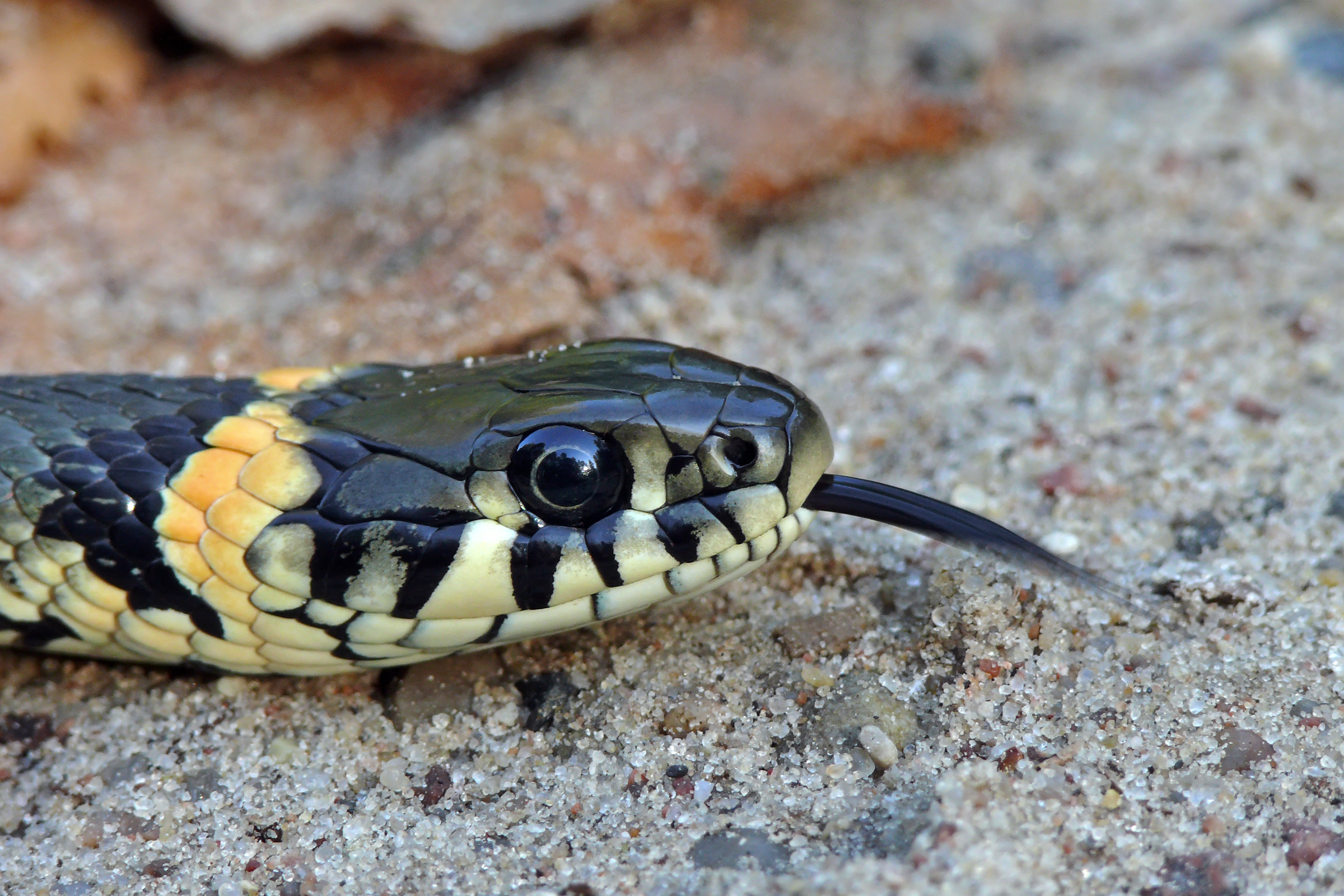 The Grass Snake (Natrix natrix)